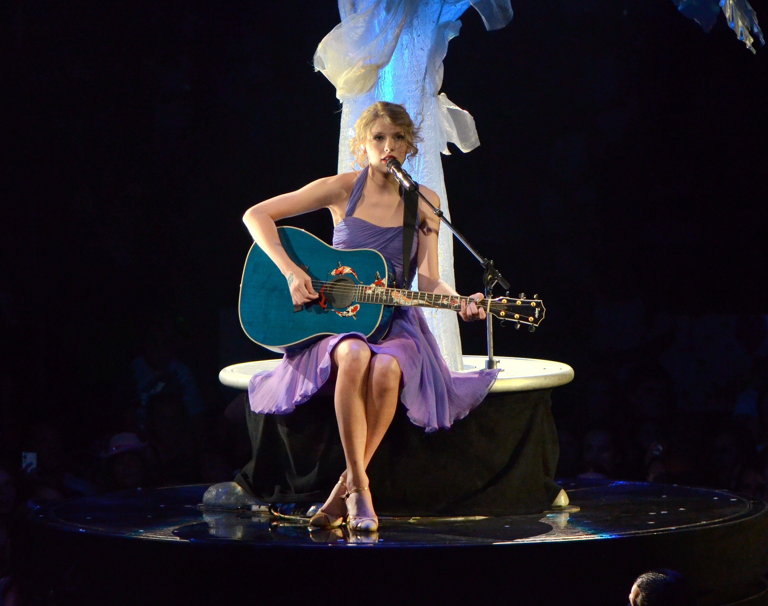 Taylor Swift performing live on Speak Now tour in July 2011